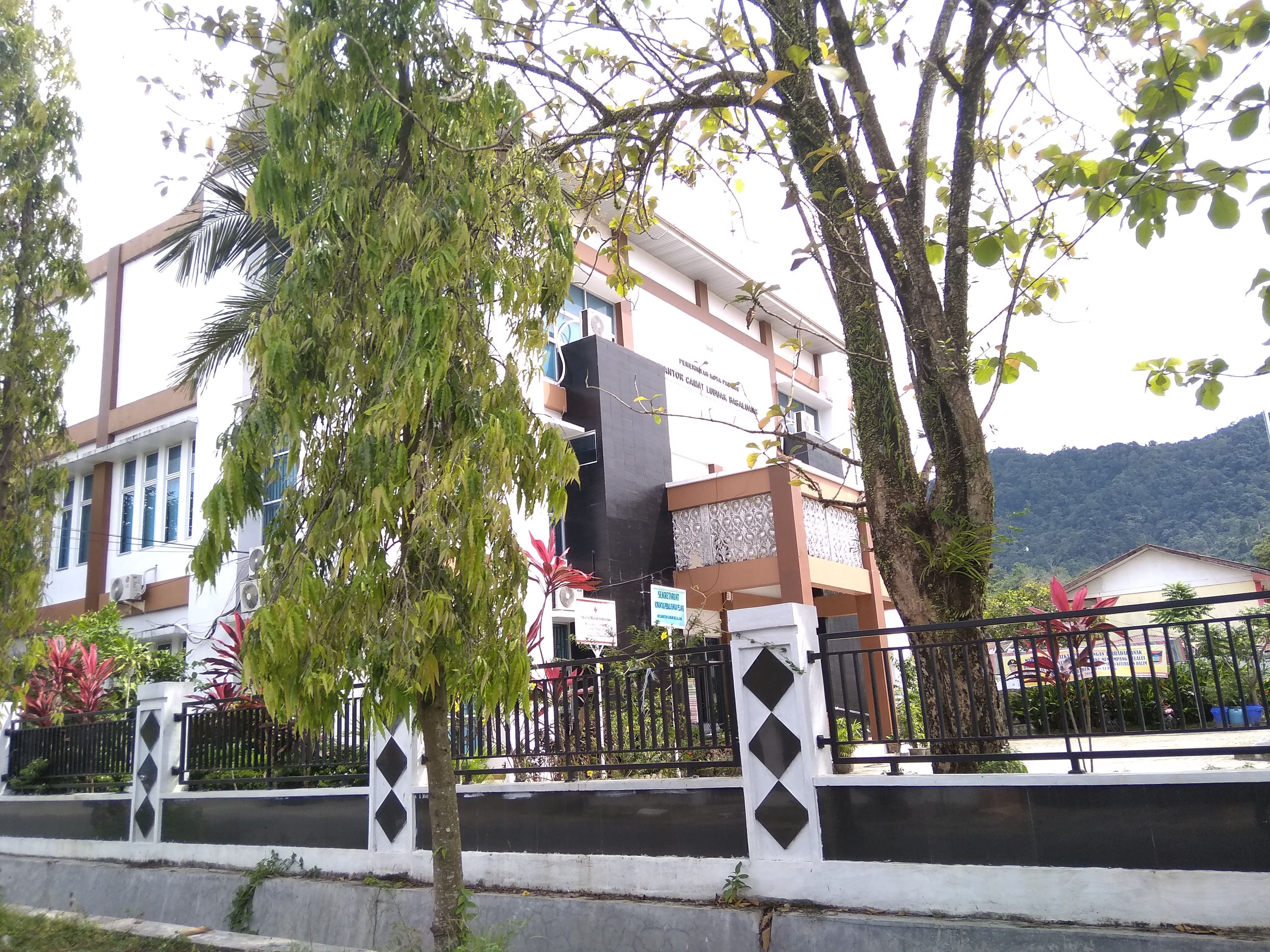 Lubuk Begalung Sub-District Office in Pegambiran Ampalu Nan XX, Lubuk Begalung, Padang City, West Sumatra, Indonesia